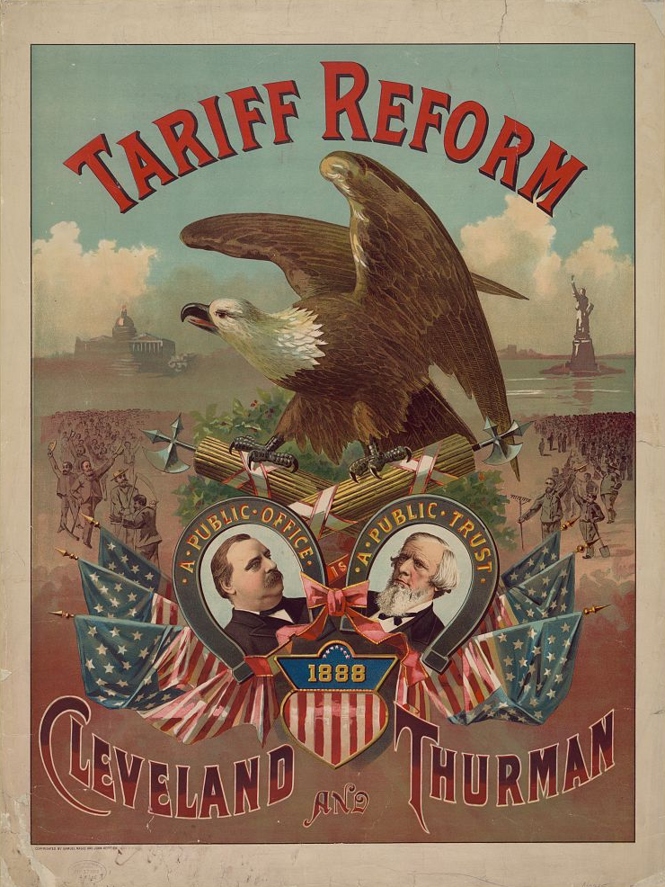 Tariff reform. Cleveland and Thurman (1888).